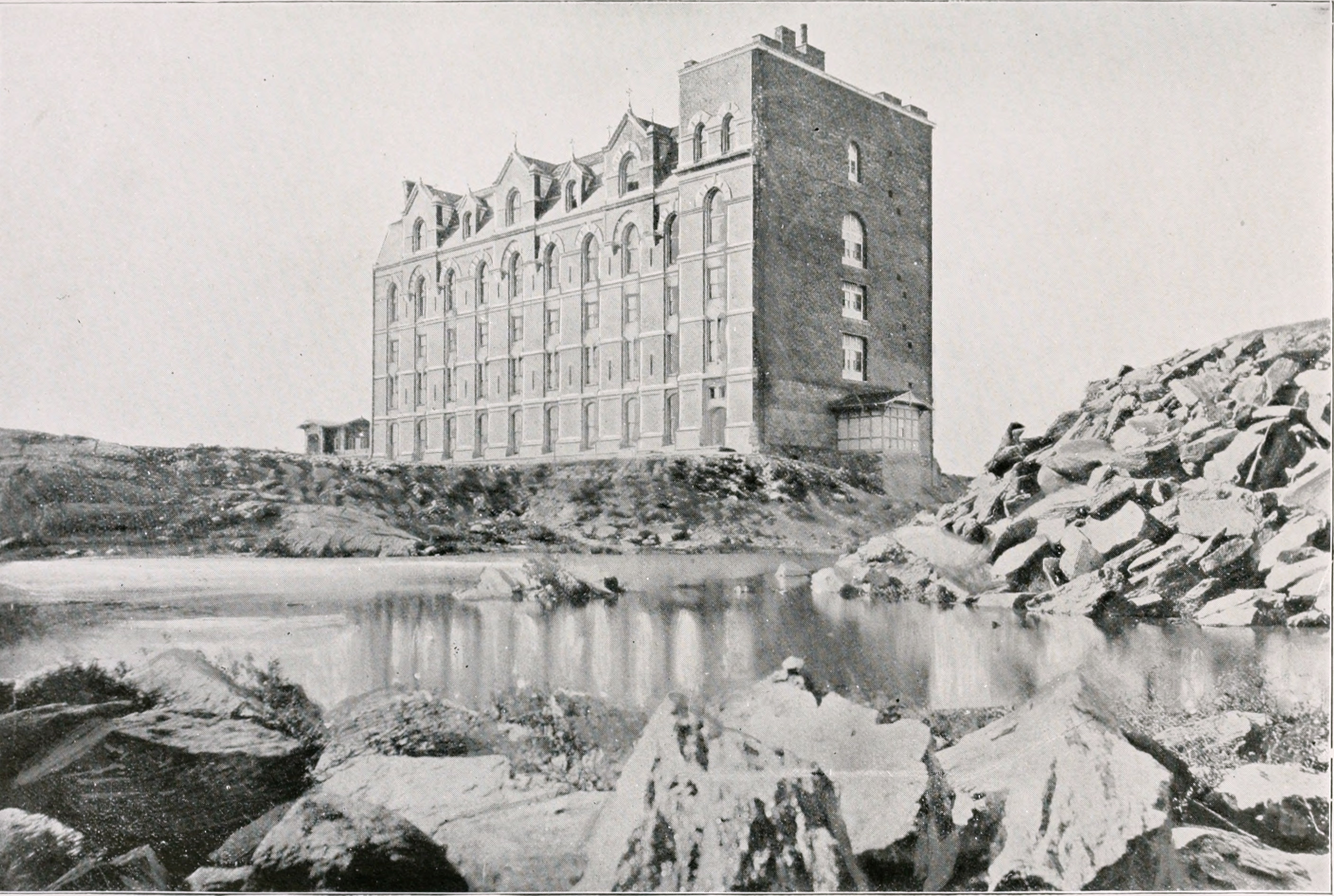 Title: The American Museum journal Year: c1900-(1918) (c190s) Authors: American Museum of Natural History Subjects: Natural history Publisher: New York : American Museum of Natural History Text Appearing Before Image: ' Text Appearing After Image: '